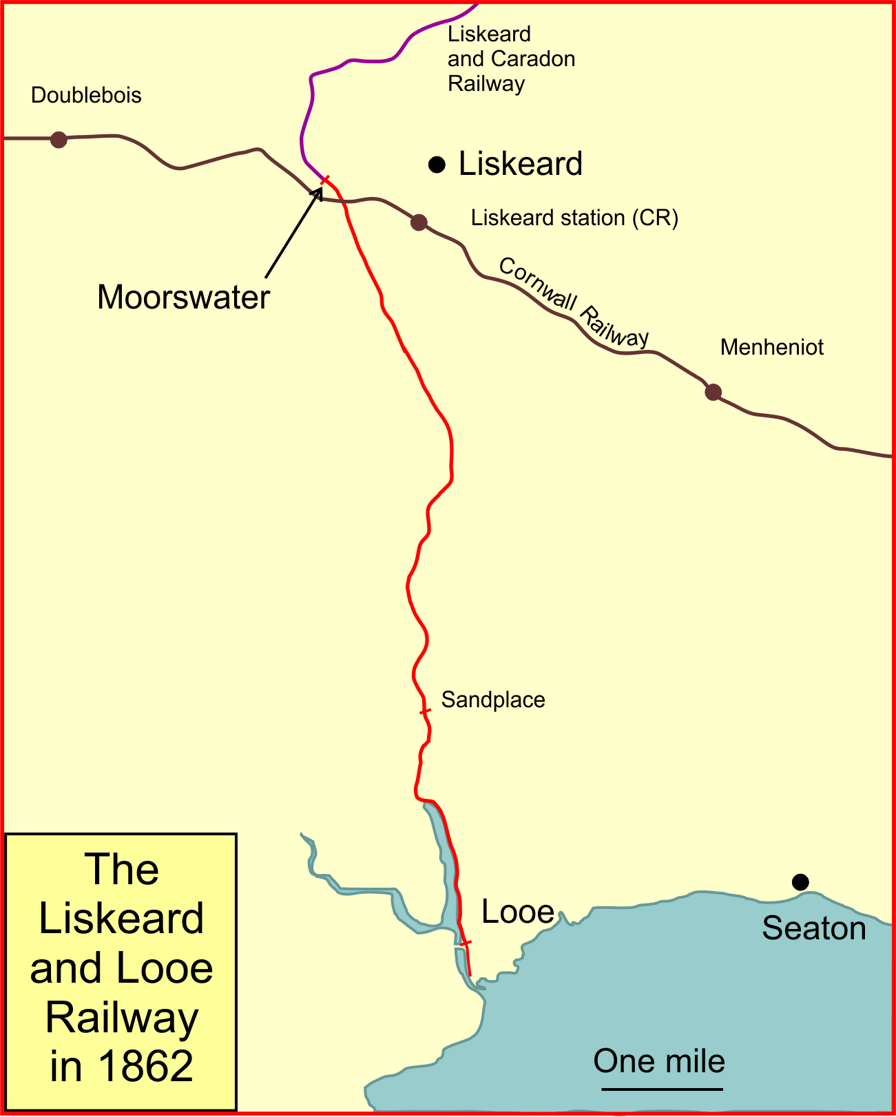 Map of Liskeard and Looe Railway system in 1962